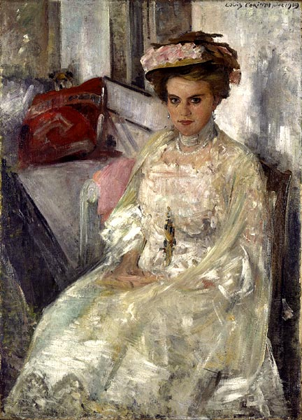 Irma Hübner was the wife of the German painter Ulrich Hübner painted by Corinth visiting the Hübners during summer vacation 1909 in Travemünde